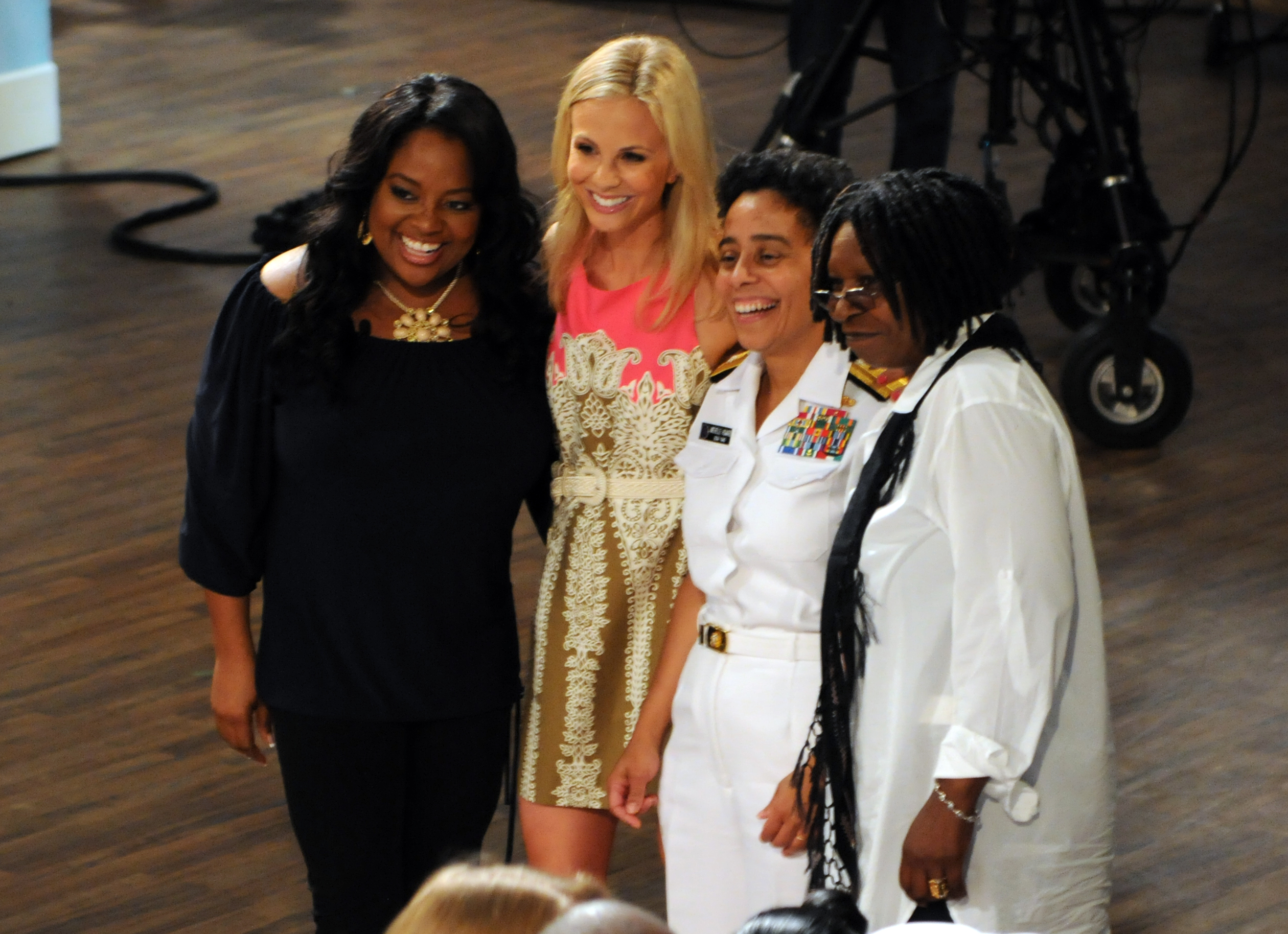 Presenters Sherri Shepherd, left, Elizabeth Hasselbeck, second from left, and Whoopi Goldberg, right, pose for a photograph with U.S. Navy Rear Adm. Michelle Howard, commander, Expeditionary Strike Group 2, at a taping of the ABC television talk show The View attended by U.S. Sailors, Marines and Coast Guard Sailors in New York City, N.Y., May 27, 2010, during Fleet Week New York 2010. New York City has conducted Fleet Week, honoring the sea services in a weeklong annual series of events, since 1984.